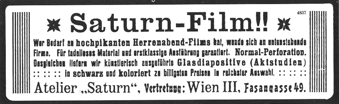 Erste Anzeige der Saturn Film. Erfolgt in "Der Komet", Nr. 1128, 3. November 1906 / first advertisement for the first austrian film company "Saturn-Film"